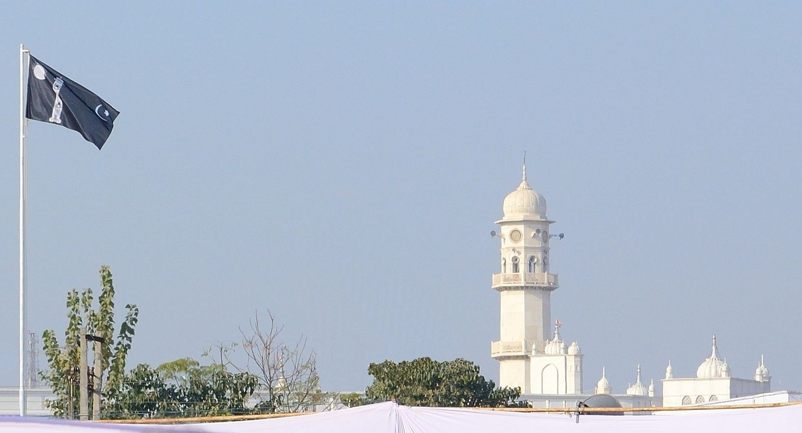 A view at the Minarat-ul-Massih in Qadian and the Liwa-e-Ahmadiyya, hosted at the 120th Jalsa Salana Qadian